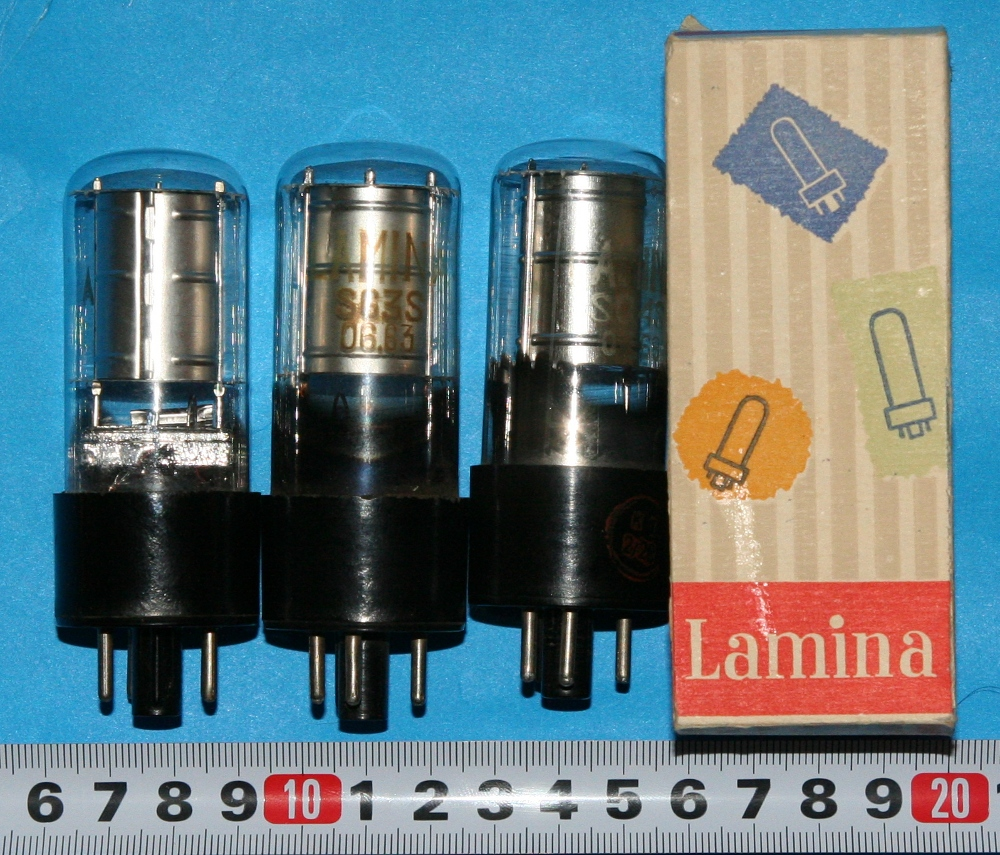 Voltage regulators SG2S SG3S SG4S.